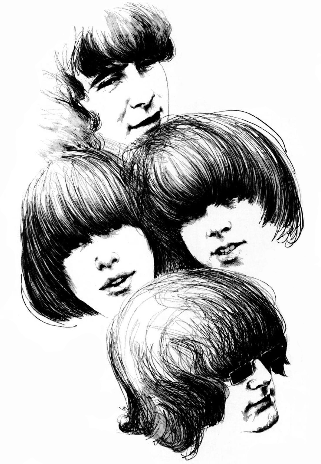 Trade ad for The Byrds' single "Have You Seen Her Face". To better adapt it to his respective Wikipedia article, the ad was cropped and cleaned in a graphics editing program. The original can be viewed at the source below.